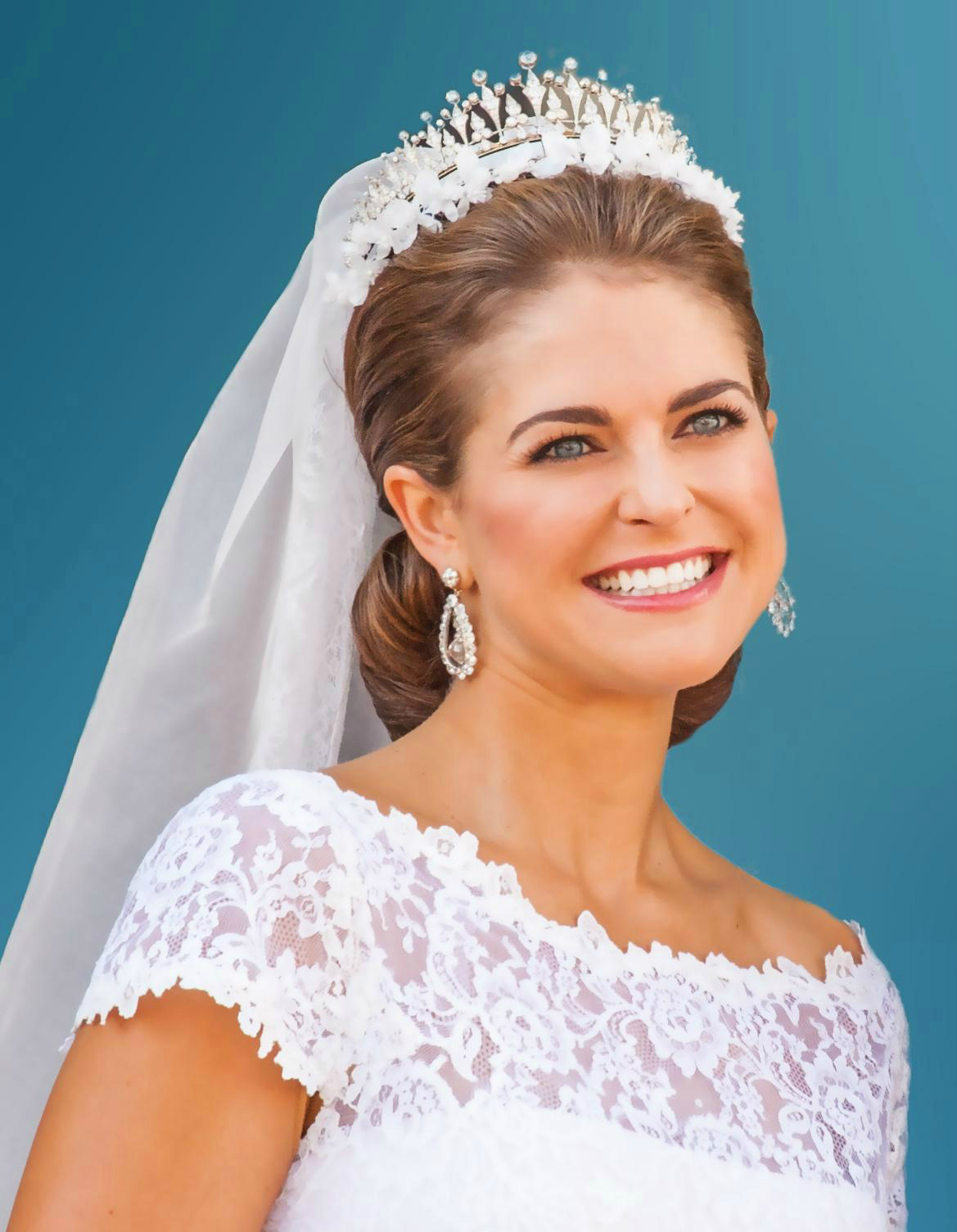 Princess Madeleine of Sweden and Christopher O´Neill wedding June 2013